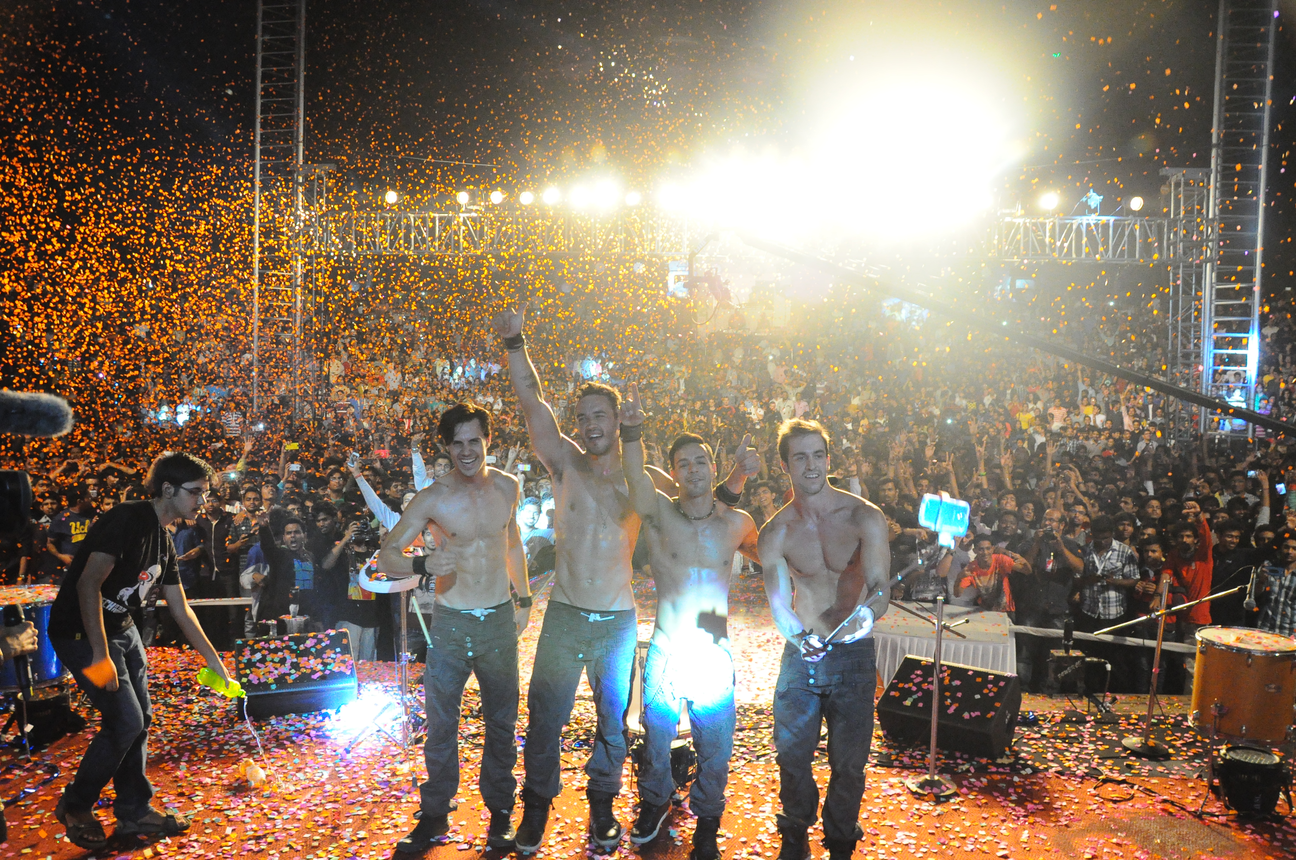 Drummers from South Africa, 1st Project at Techfest-2015